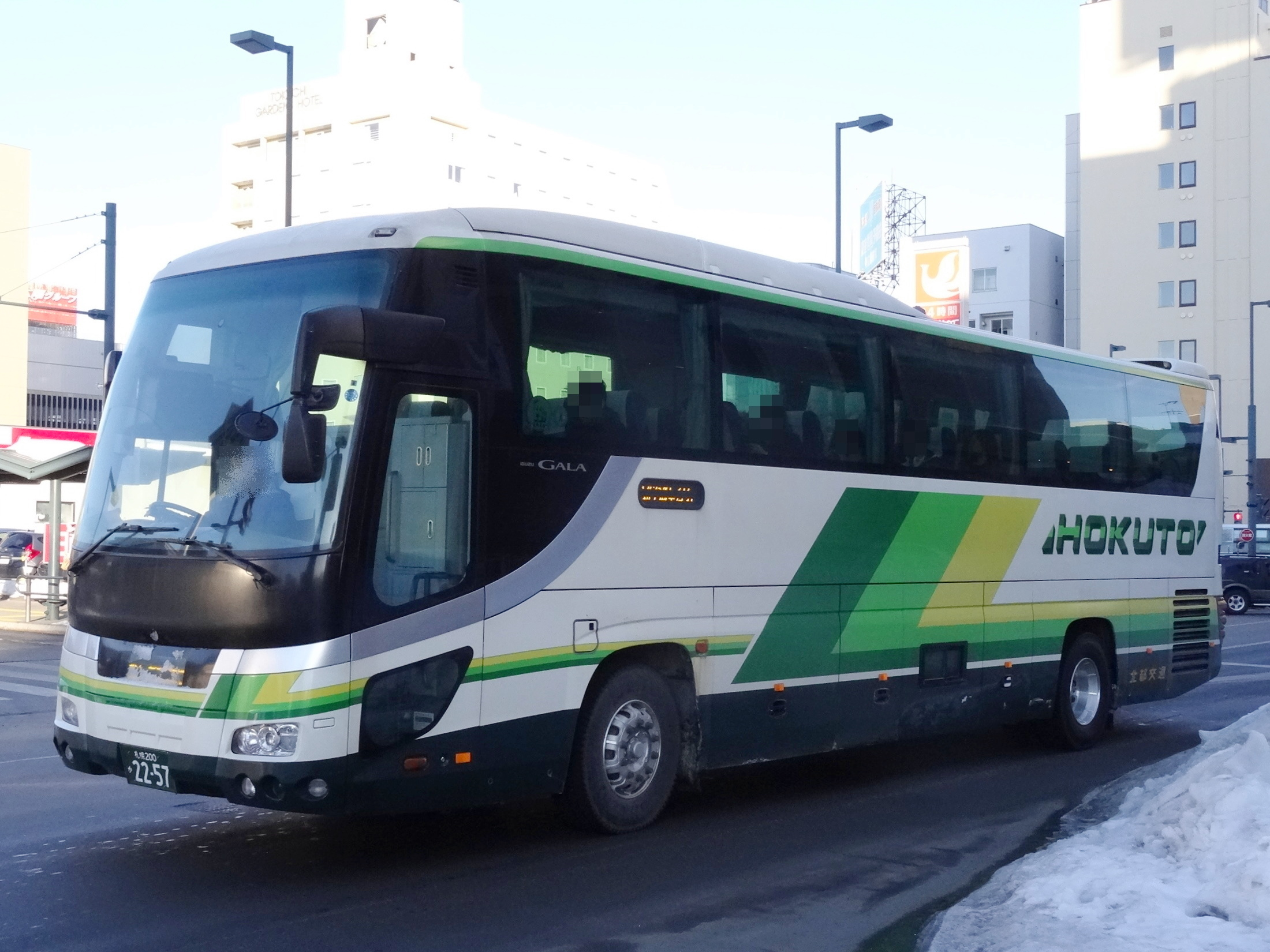 Obihiro Station to New Chitose Airport, Minami-Chitose Station